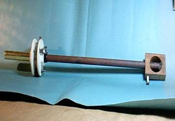 Home made Ranque-Hilsch vortex tube.